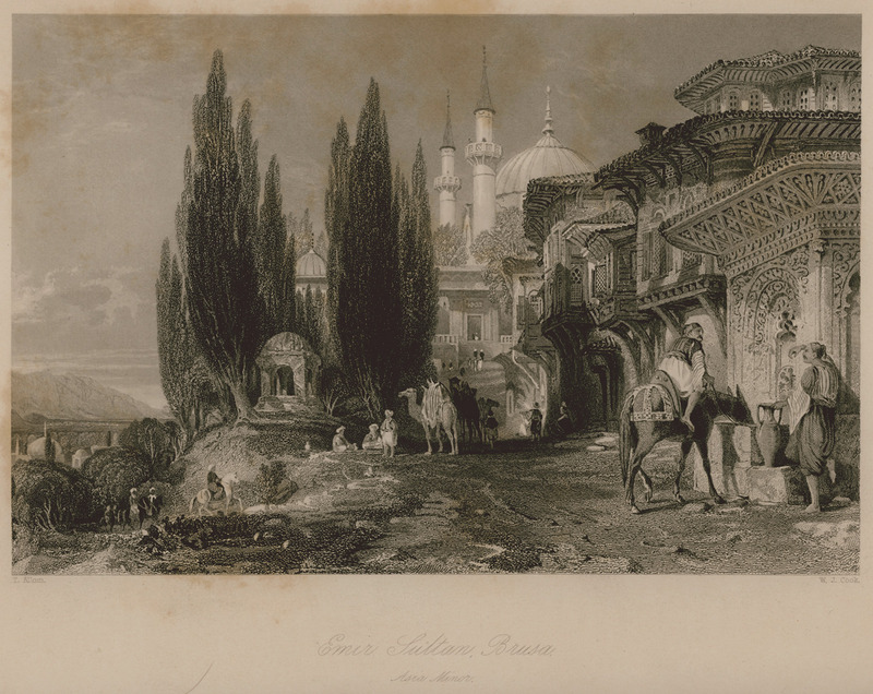 Illustration from Constantinople and the Scenery of the Seven Churches of Asia Minor illustrated…, With an historical Account of Constantinople, and Descriptions of the Plates…, London/Paris, Fisher, Son & Co. (1836-38), by Robert Walsh and Thomas Allom